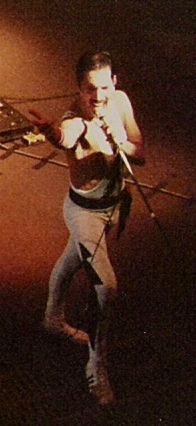 Freddie Mercury of Queen live in Frankfurt, Germany